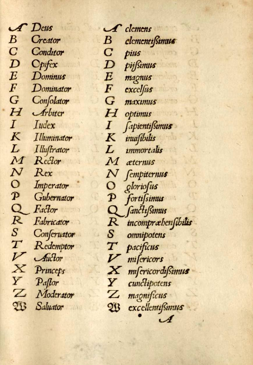 Johannes Trithemius: Polygraphiae p71.